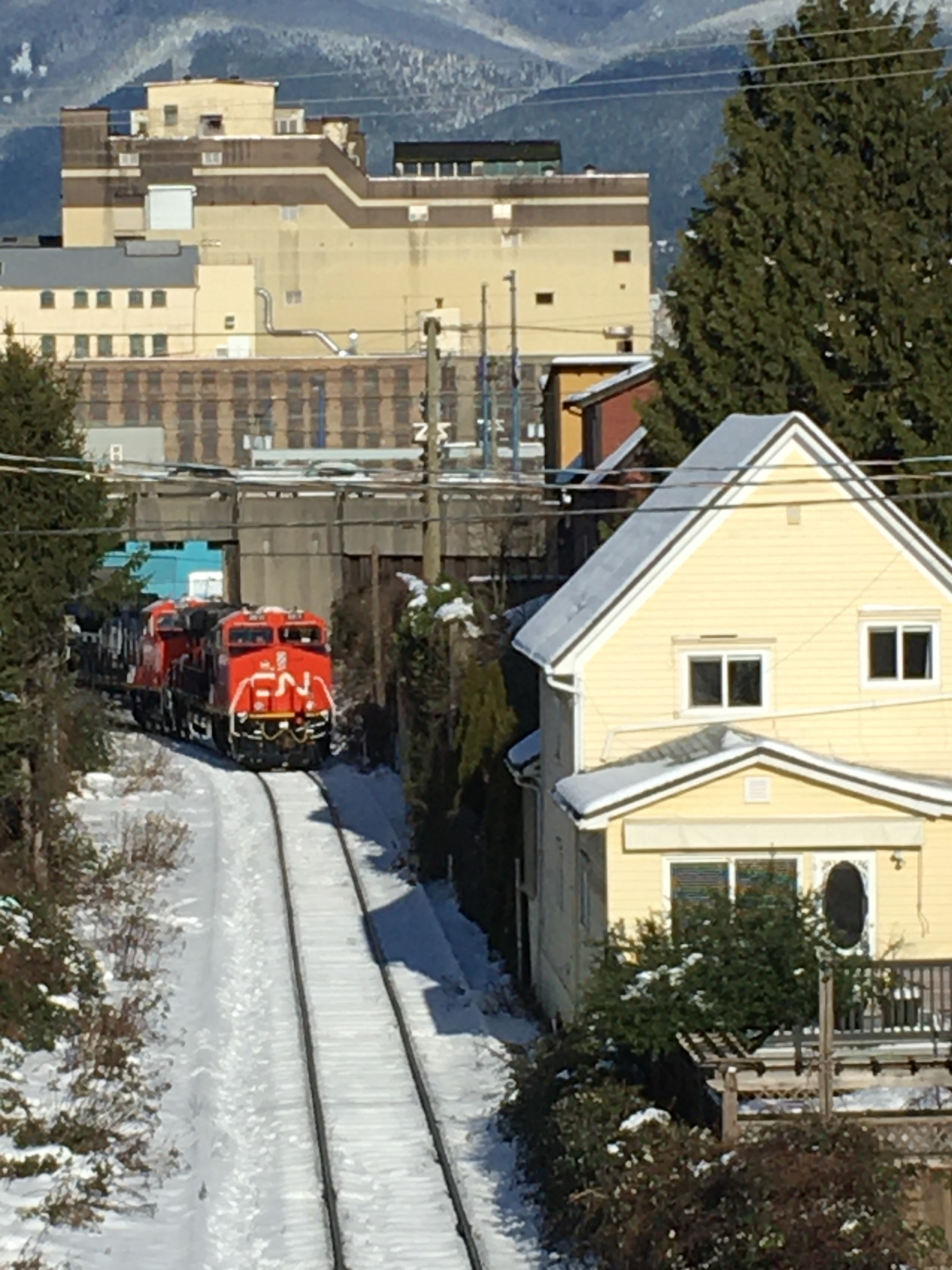 CN Rail train approaching the site of the Militant Mothers of Raymur protests in Strathcona, Vancouver. Taken from the Militant Mothers of Raymur overpass at Keefer Street, facing north towards Hastings Street.